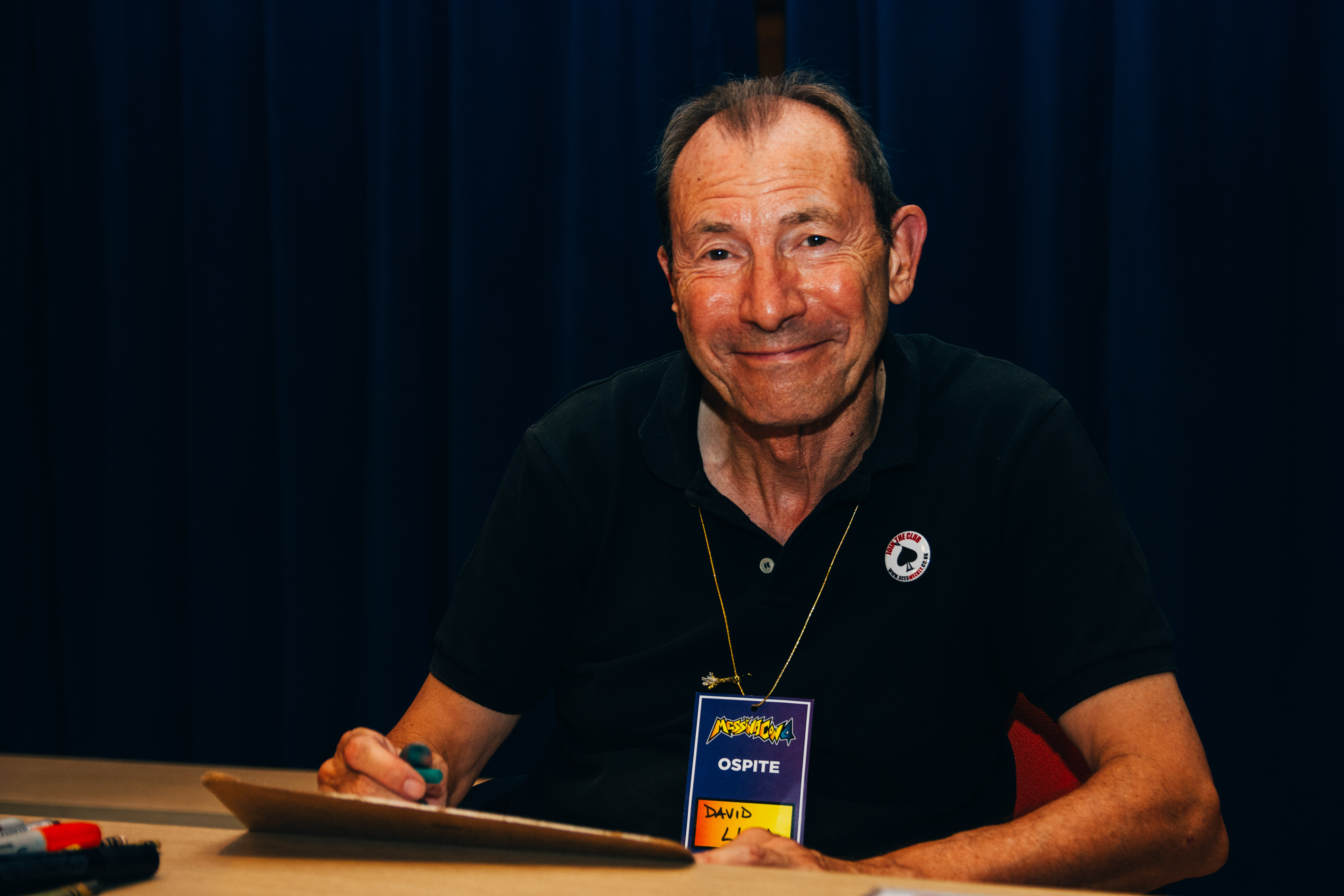 David Lloyd at the artist booth of MessinaCon, 26 August 2018